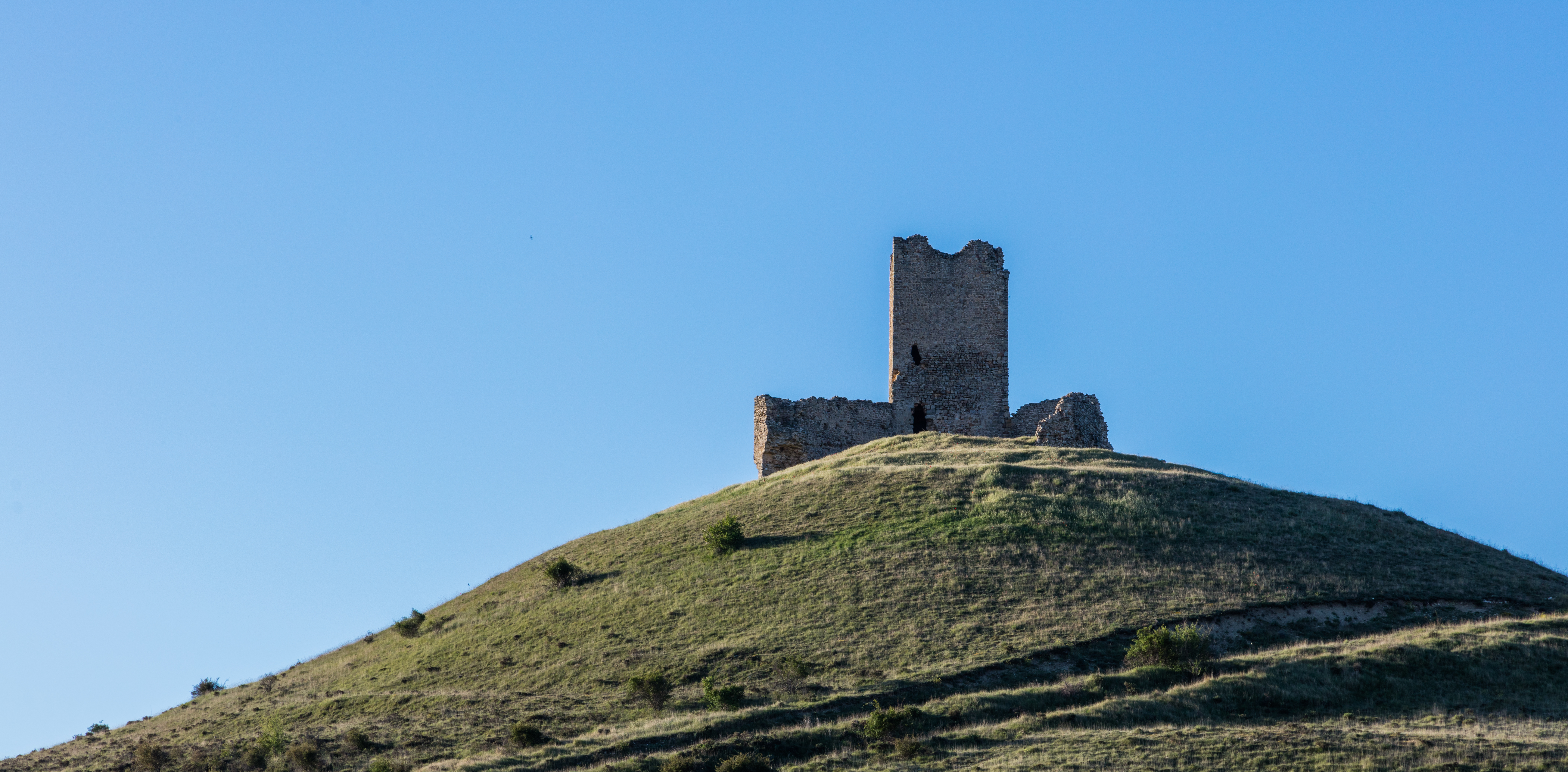 Castle of Torresaviñán, Guadalajara, Spain